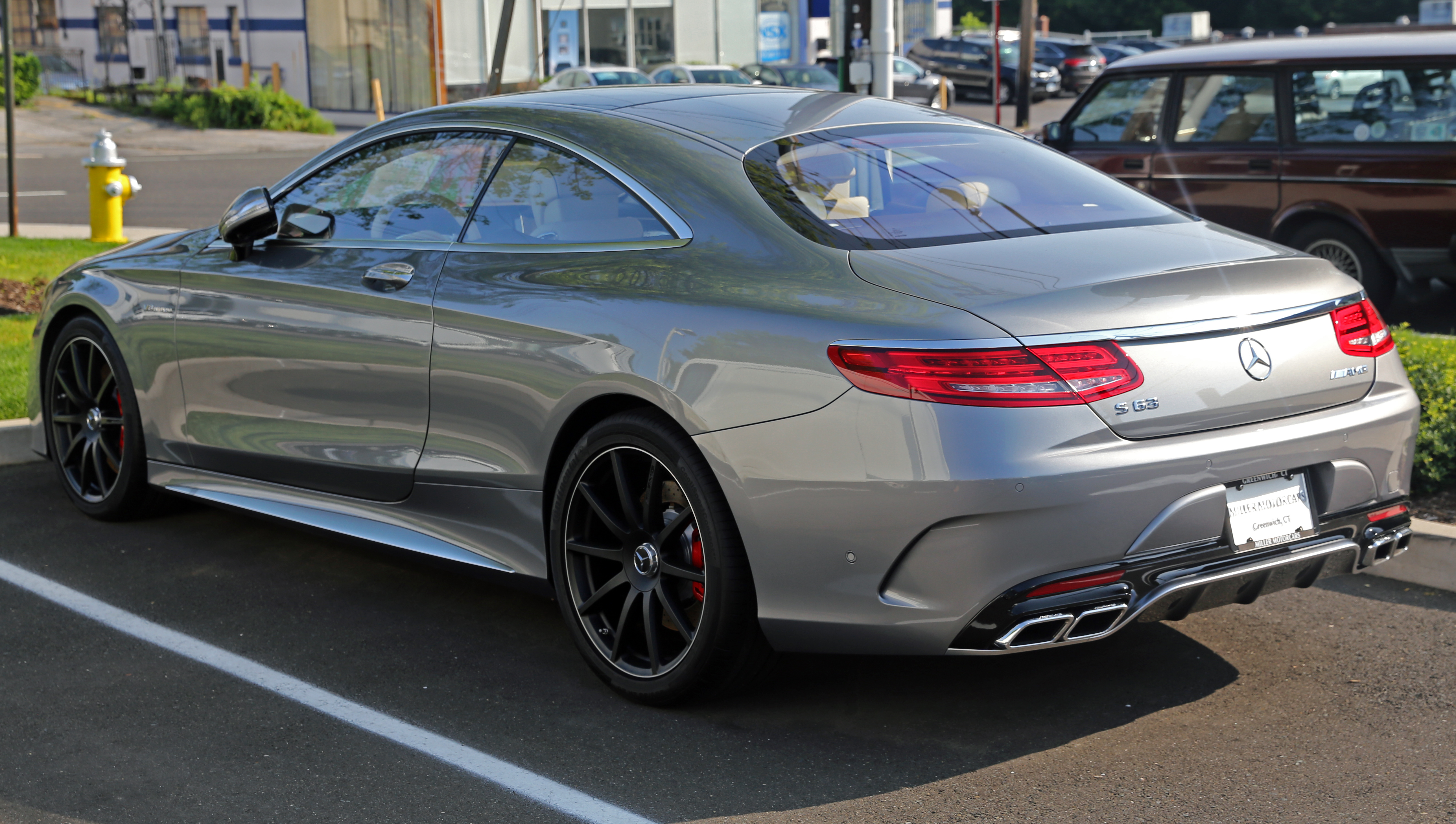 2015 Mercedes-Benz S63 AMG 4Matic Coupé in Palladium Silver Metallic. Forged ten-spoke AMG 20" alloys, and a pile of extras larger than I have any interest in recounting here.